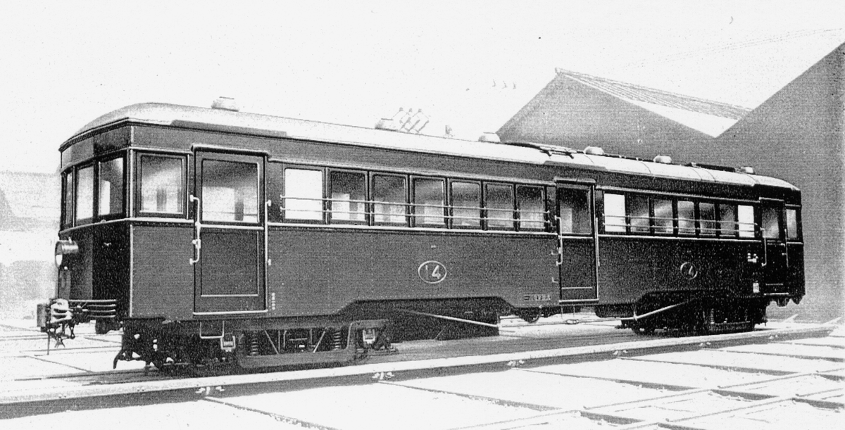 Ichibata elc rly kuha 14 EMU